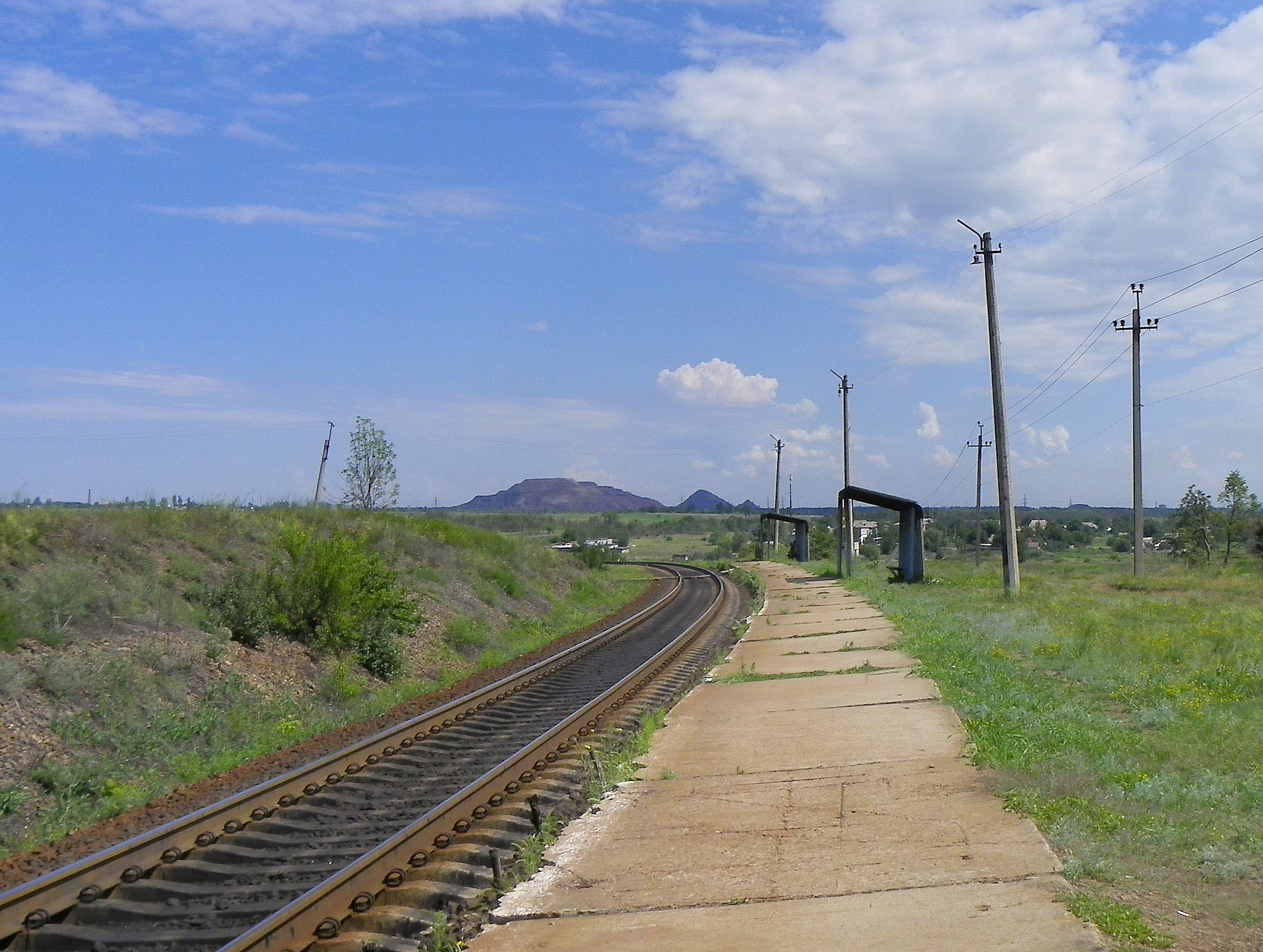 39 km Railway Halt of the Donetsk Railway.